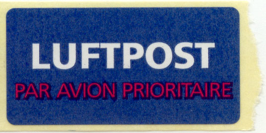 Luftpostaufkleber date: 17.07.2005 by: Christoph Hoffmann